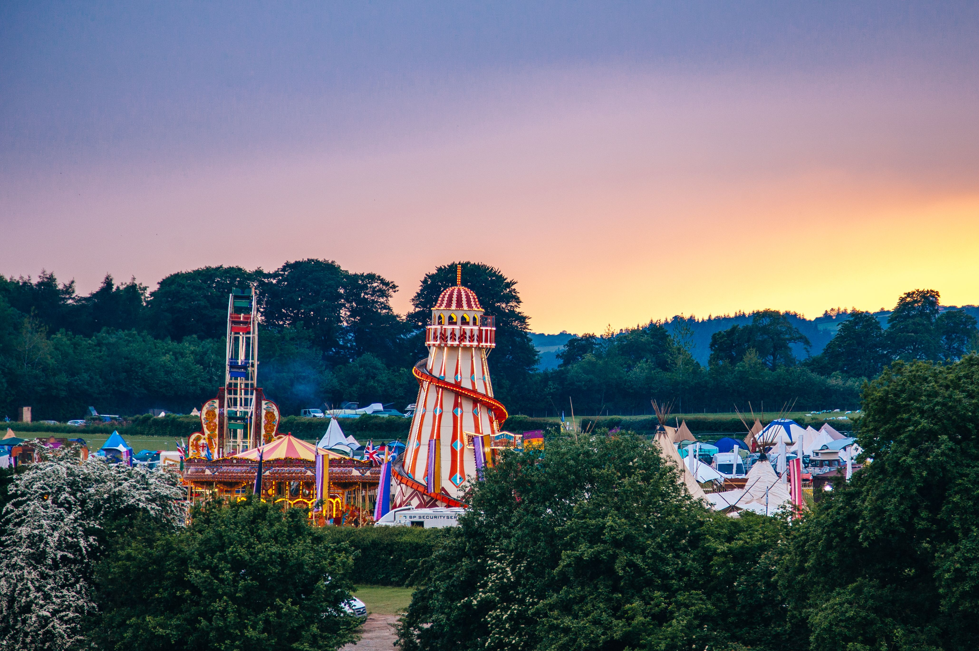 HowTheLightGetsIn Festival Hay-on-Wye 2018 site showing the Ferris wheel, helter-skelter, carousel, and more.